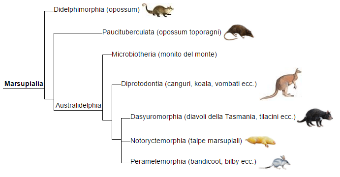 Phylogeny of marsupials